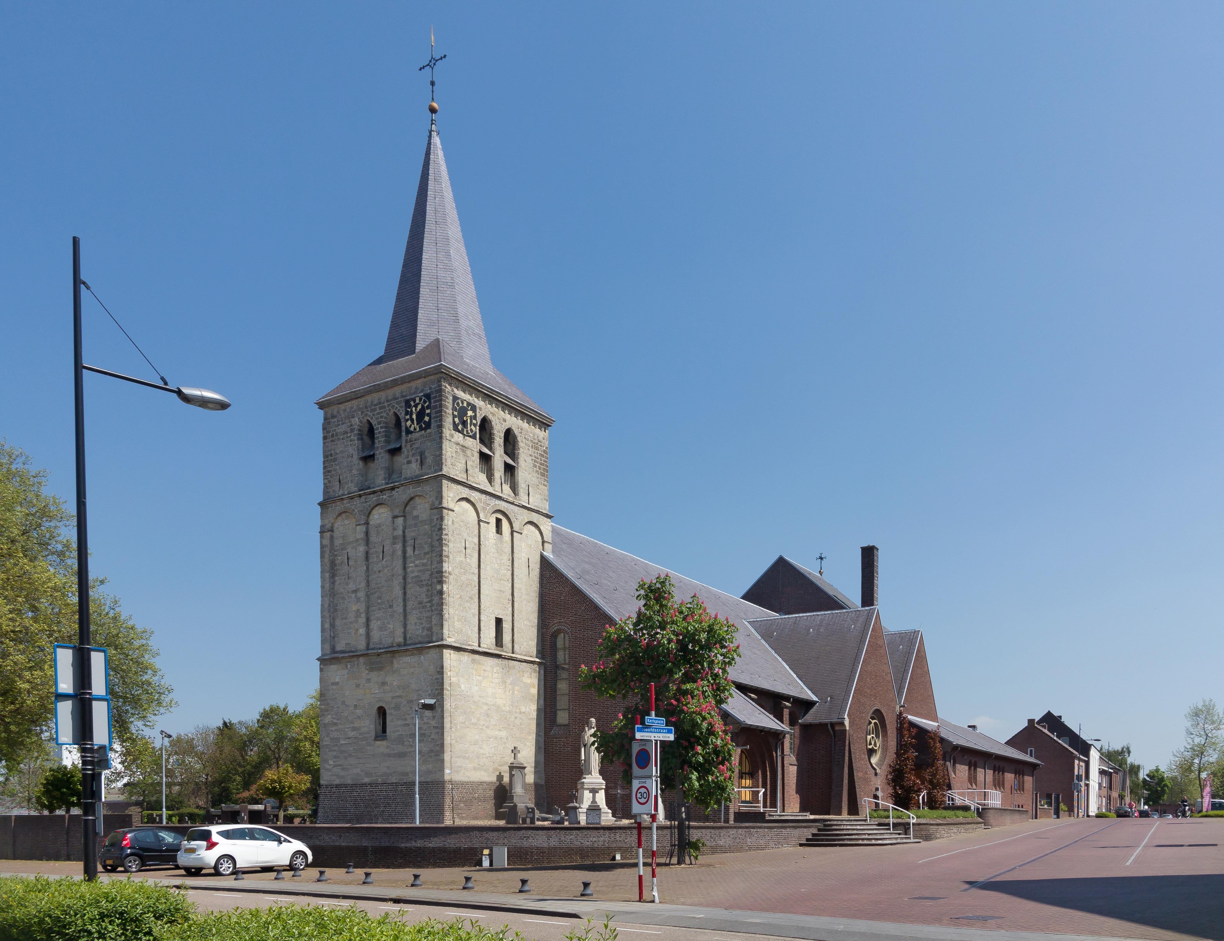 Maasbracht, church: de Sint-Gertrudiskerk